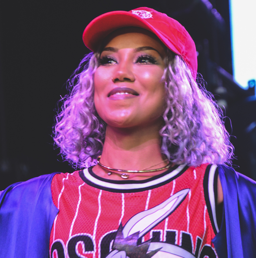 The High Road Summer Tour 2016 at the Molson Canadian Amphitheatre featuring Snoop Dogg, Wiz Khalifa, Jhené Aiko, Casey Veggies and Dj Drama. Photography by Charito Yap